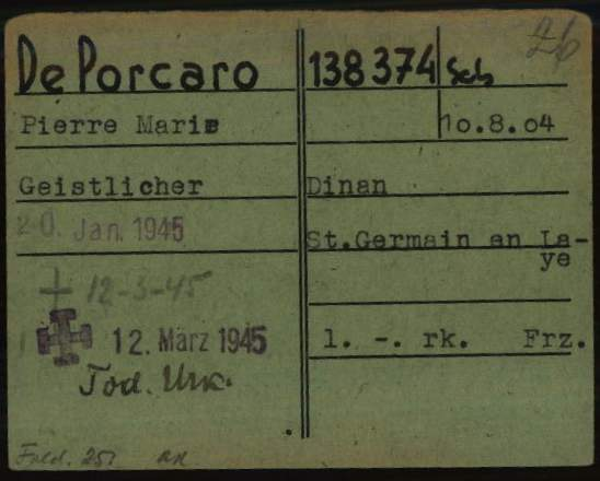 Registration card of Pierre de Porcaro as a prisoner at Dachau Nazi Concentration Camp. The stamped cross signals the day of his death.